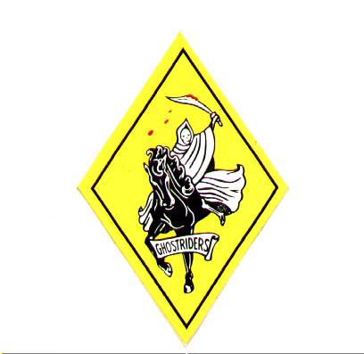 The VF-142 Ghostriders squadron patch.